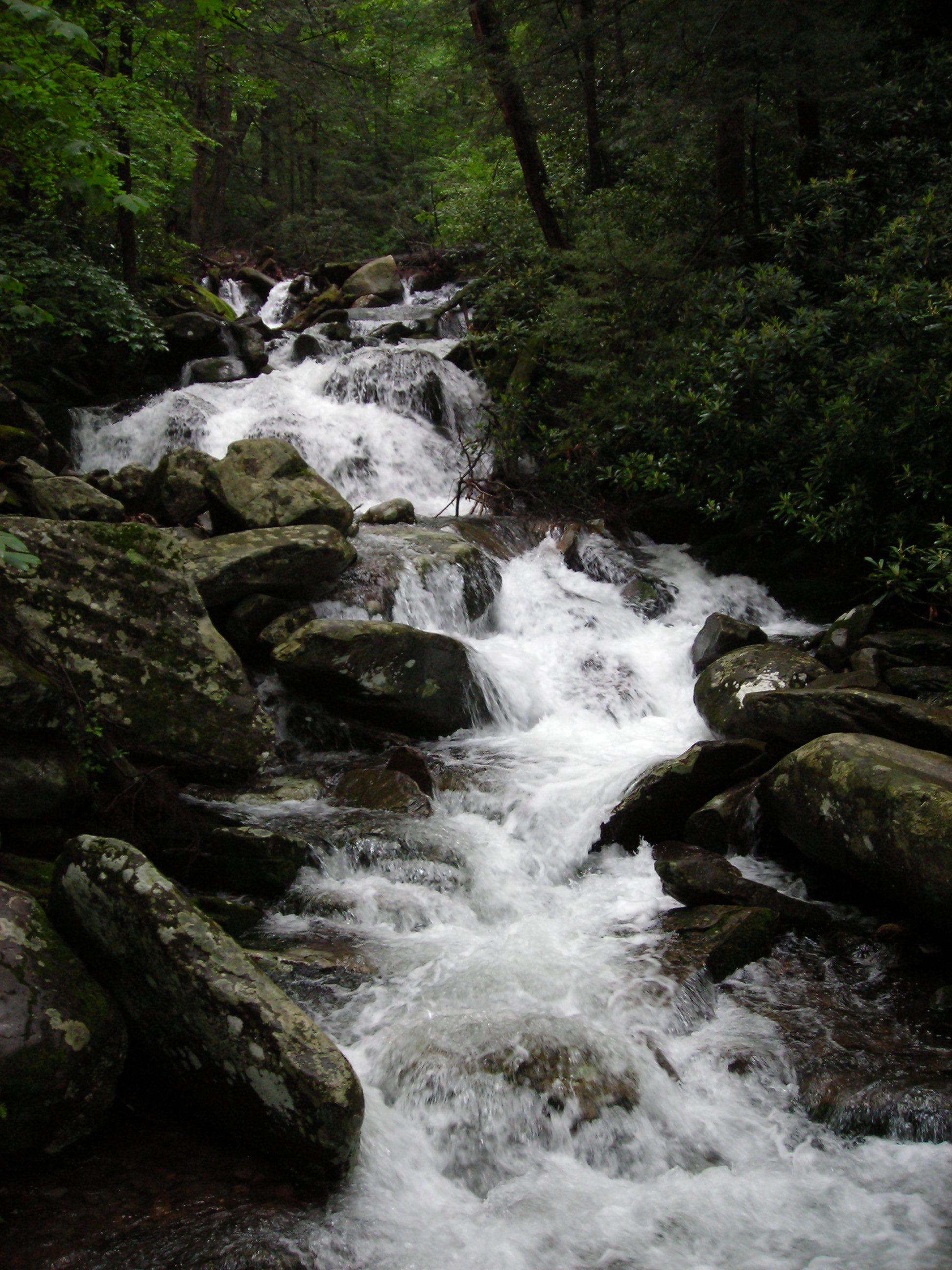 Le Conte Creek drains Mount Le Conte, one of the highest mountains in the eastern United States, before flowing into Baskins Creek, upstream from the city of Gatlinburg, Tennessee. Photo taken by myself, Scott Basford, on June 3, 2006.